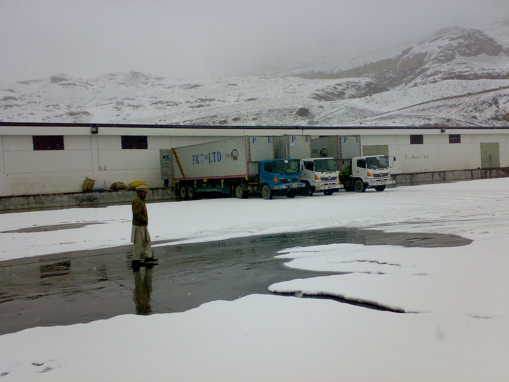 Pakistan and China have opened border for trade and tourism at Khunjrab. Silk Route Dry Port, the port has also started its business operations at the port Sust (Upper Hunza) near Khunjarab pass Gilgit-Baltistan. Annual trade between China and Pakistan has increased from less than $2 billion in 2002 to $6.9 billion, with a goal of $15 billion by 2014. Sost [Sust] dry port is the first formal port at the China-Pakistan border, facilitating customs clearance and other formalities for goods moving from the Chinese regions of Kasghar and Sinkyang to the commercial centers of Pakistan. The town is connected by the Karakoram Highway to Karimabad, Gilgit and Chilas on the south and the Chinese cities of Tashkurgan, Upal and Kashgar in the north.